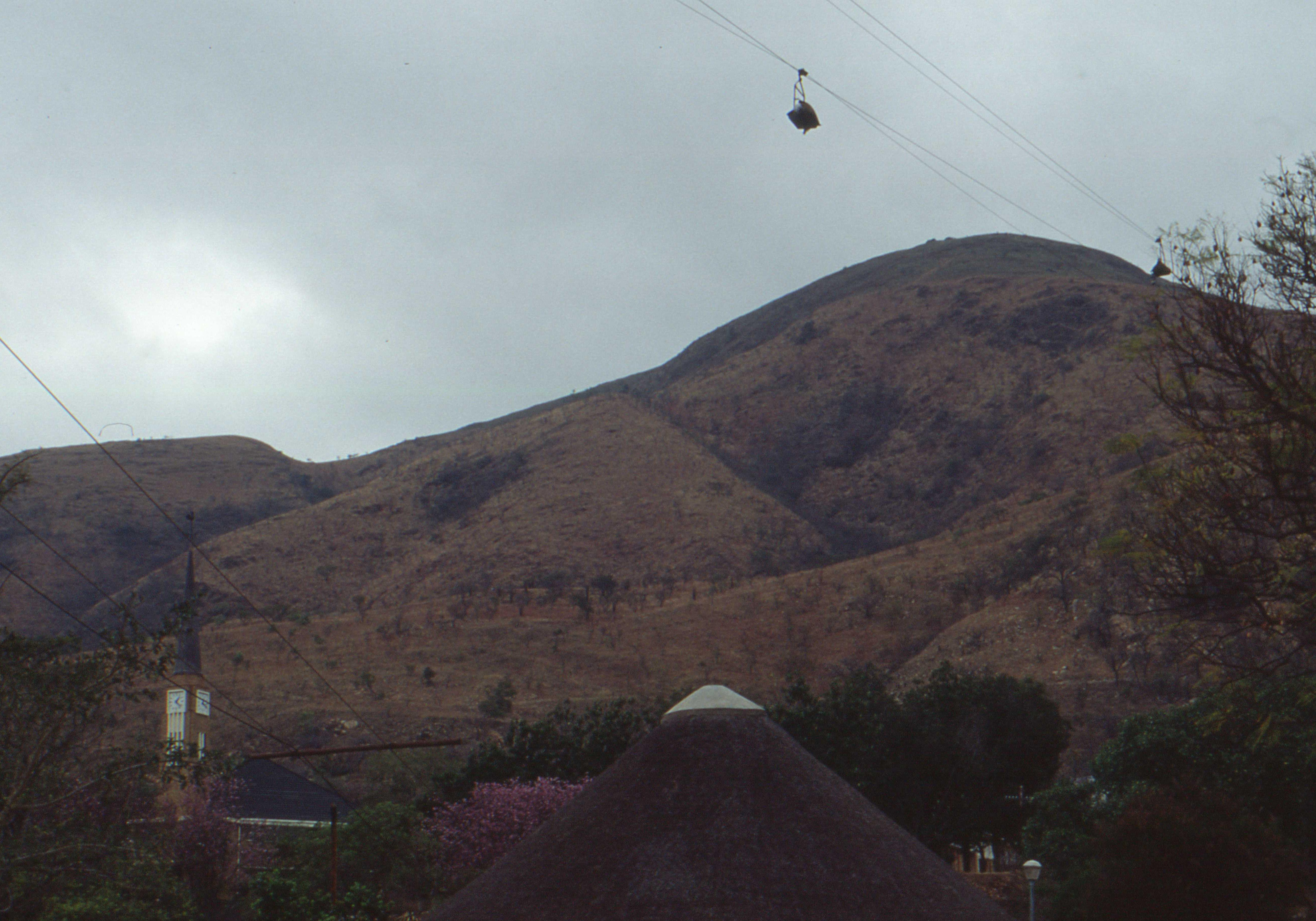 Ropeway Bulembu-Barberton above Barberton